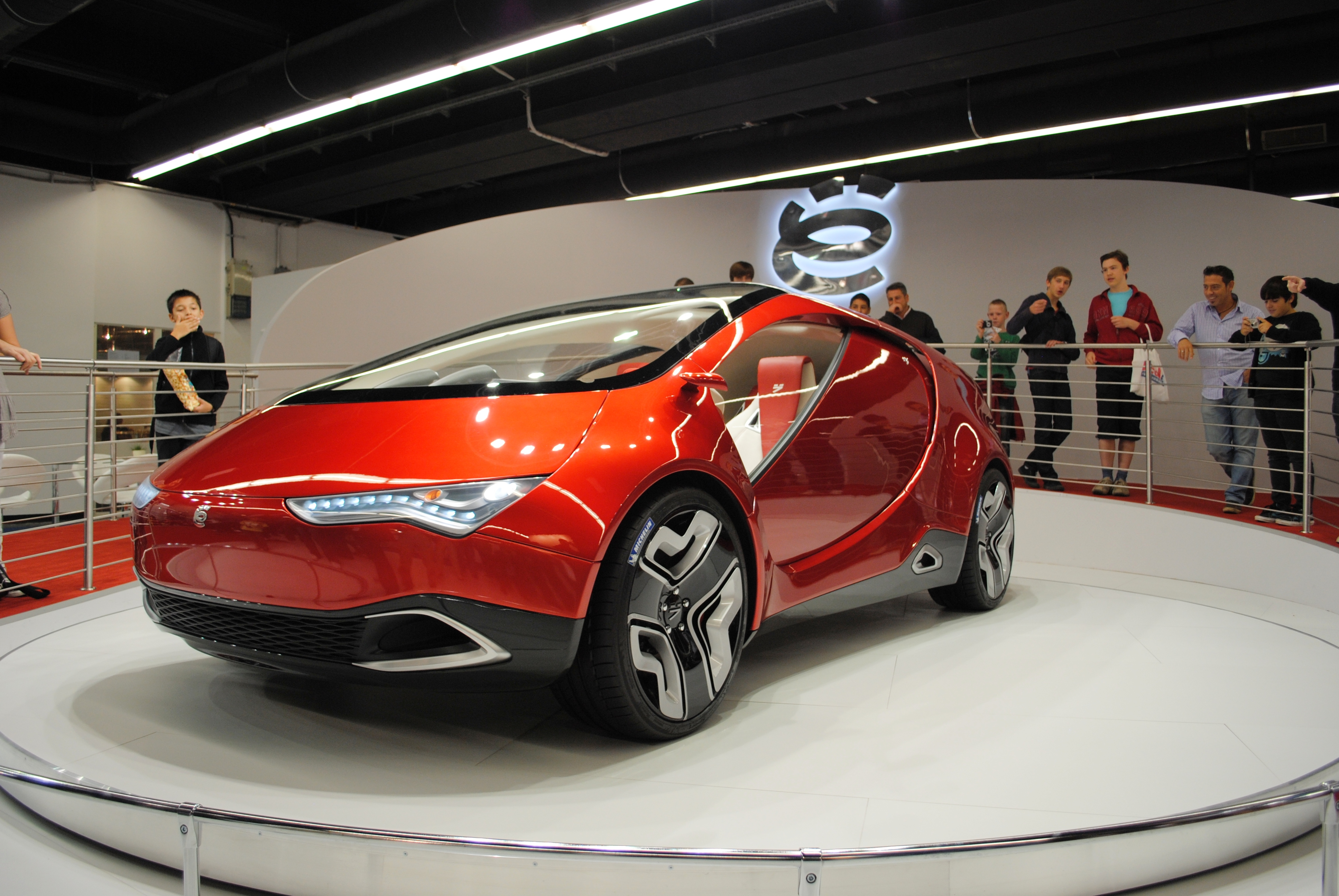 Yo-mobil in Frankfurt, Germany. IAA 2011.